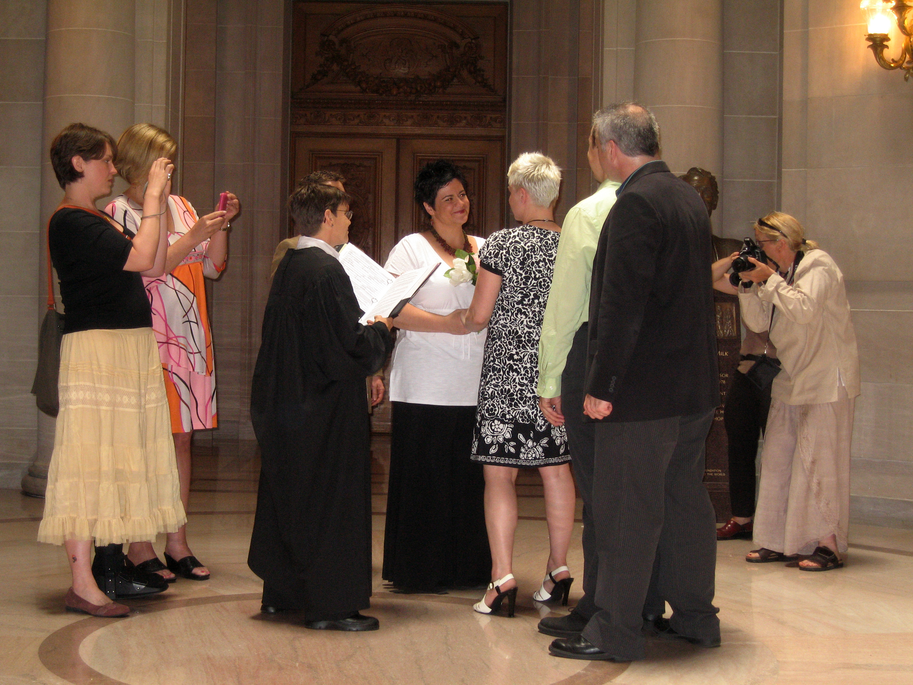 I went down to City Hall on my lunch break on the first official full day that gay & lesbian couples could get married in California and took photos of various weddings taking place throughout the building. City Hall set up designated ceremony locations all over the place in the upstairs part of the building. After a couple was officially married, they'd walk down the grand staircase together and everyone who was there would cheer and clap for them. Many of these couples had flown in last minute from states all over the country to finally make official the committed relationships that they've been in for years and decades. Outside City Hall were supporters with large signs delivering messages of love and support. Other people brought bouquets of flowers to give to each couple as they left the building. And several radio stations setup remote broadcasting booths there in front of City Hall. In particular, Energy 92.7 FM (the local dance station) brought cake and champagne to hand out to all the people celebrating their new lives together. There was not a single protestor. It was really a touching event.